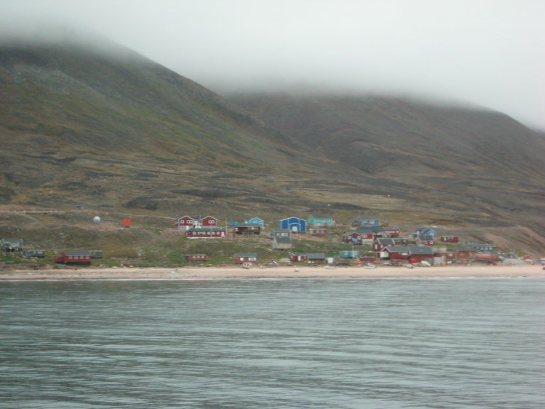 The beach of Siorapaluk